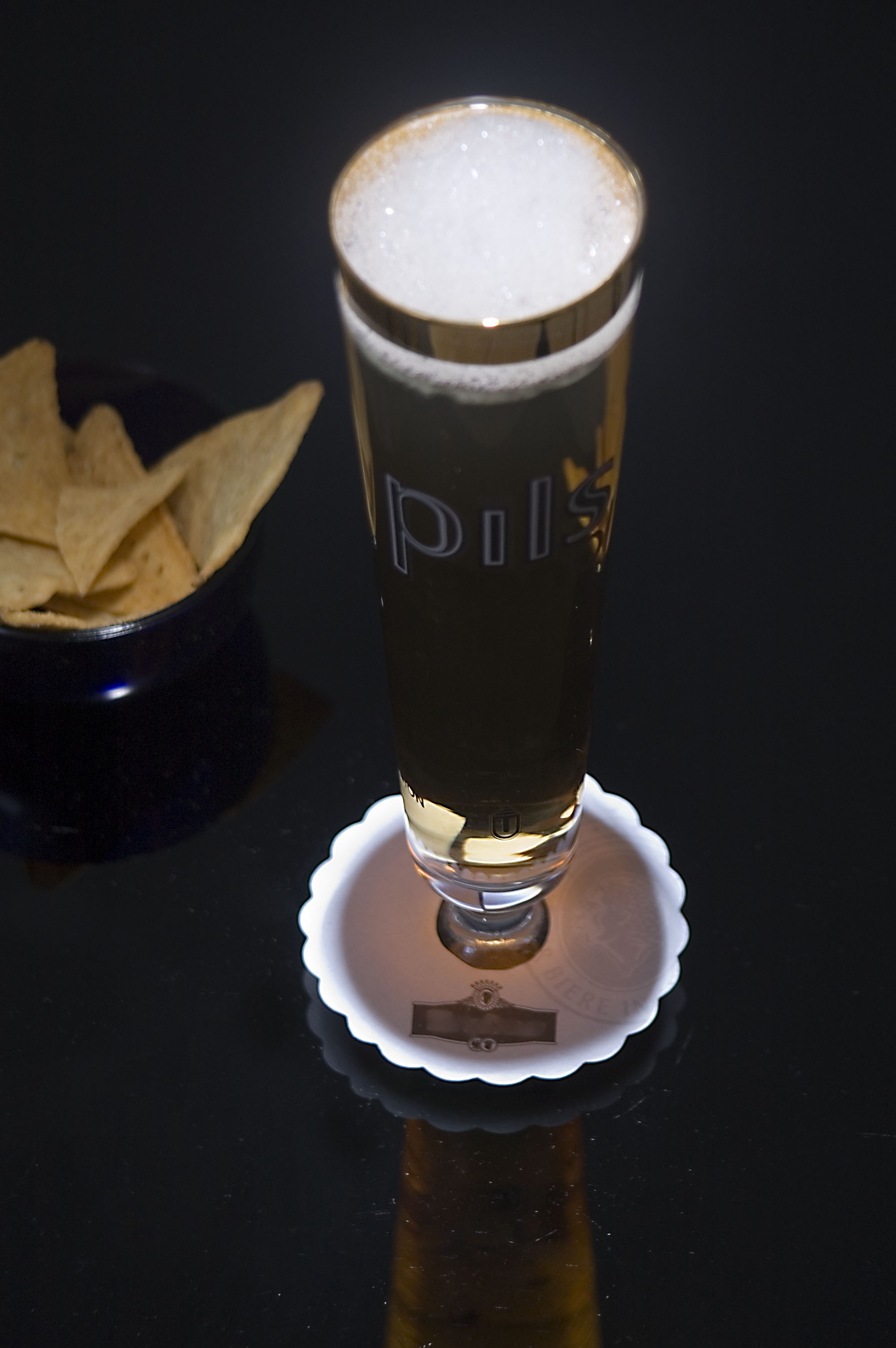 Tulip shaped pilsner glass filled with beer, with drop catcher.